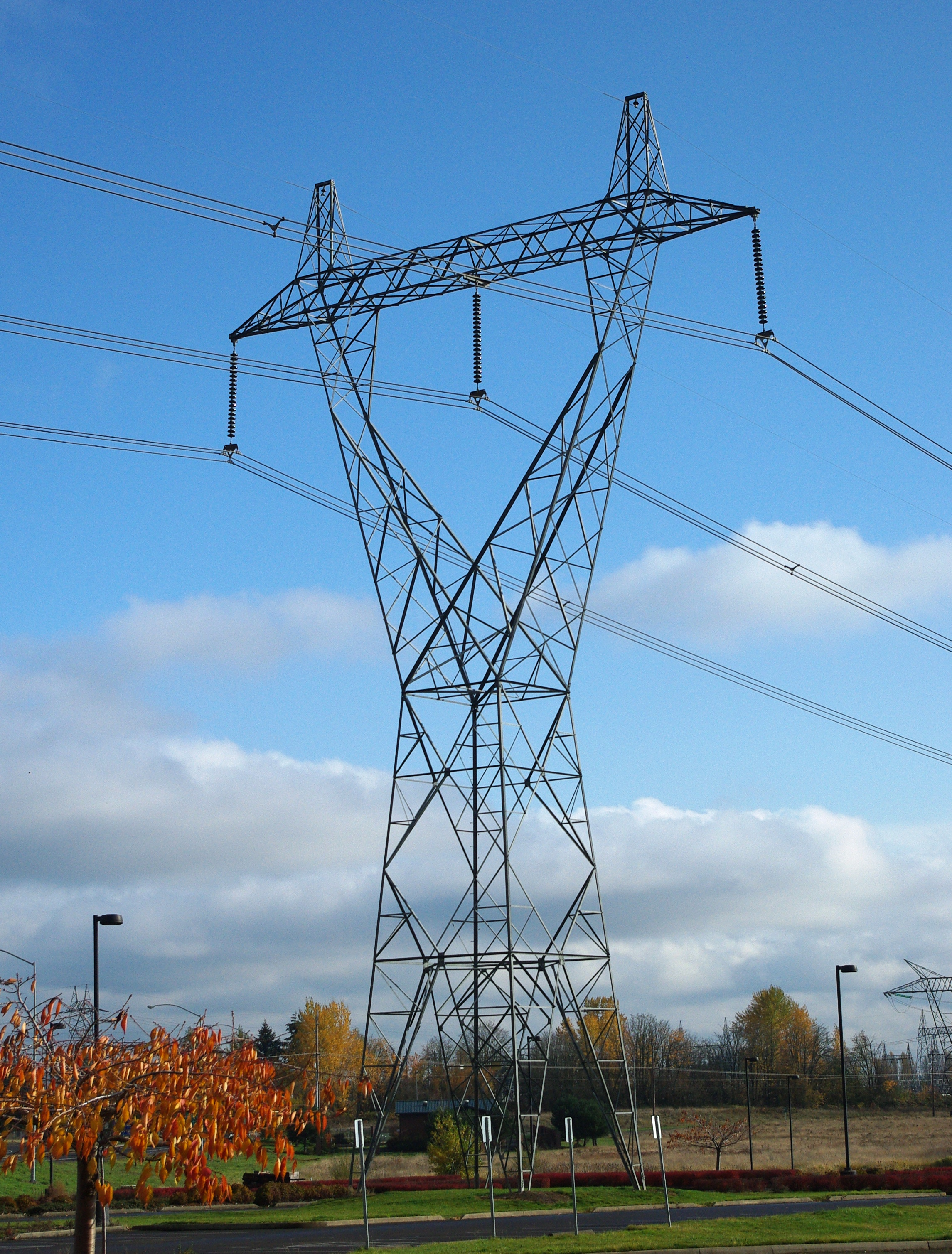 High voltage, long rang power transmission line metal support structure in Hillsboro, Oregon, USA. Between Hillsboro Stadium and US 26.